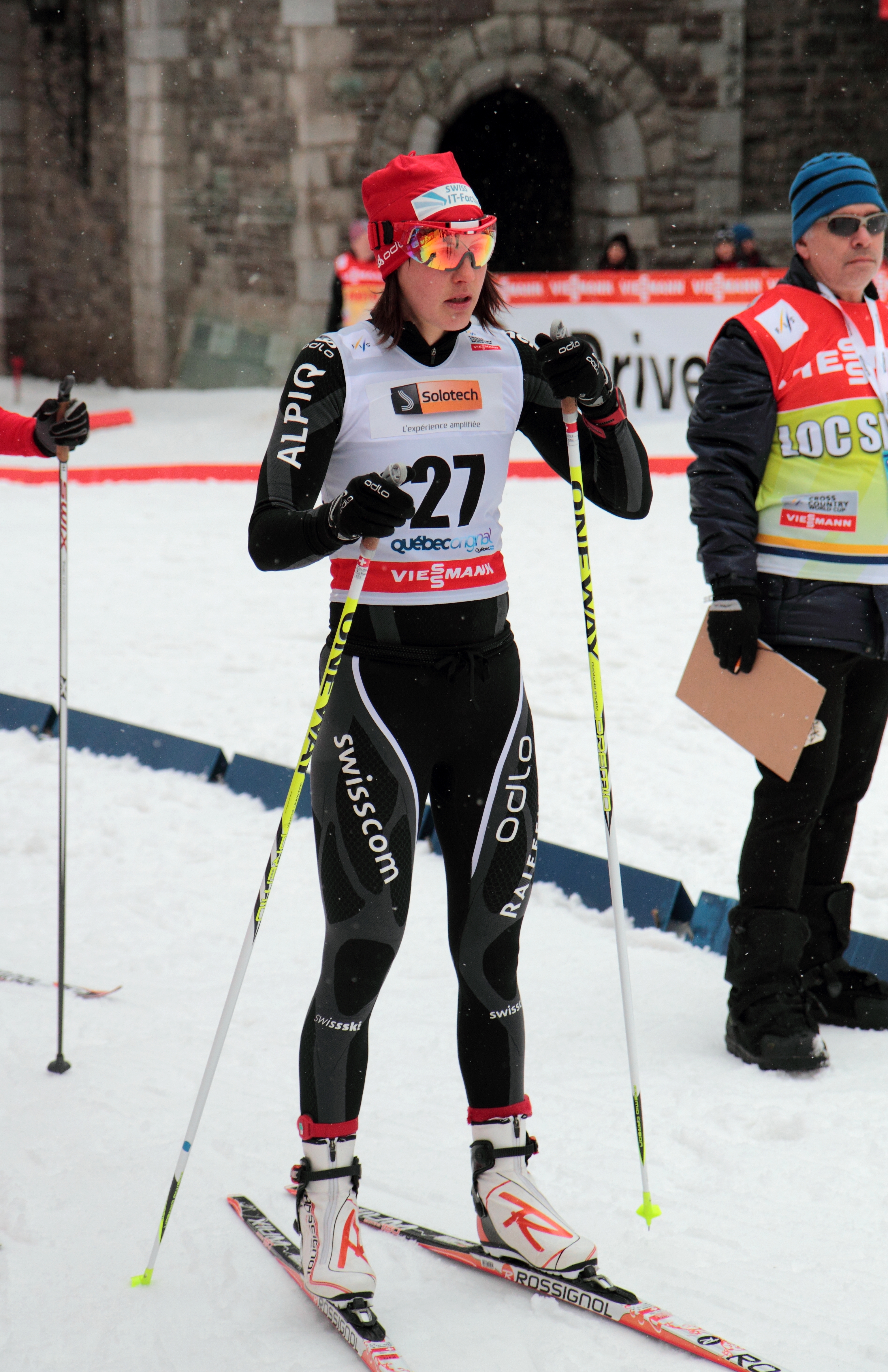 Bettina Gruber, FIS Cross-Country World Cup 2012, Quebec, Canada.